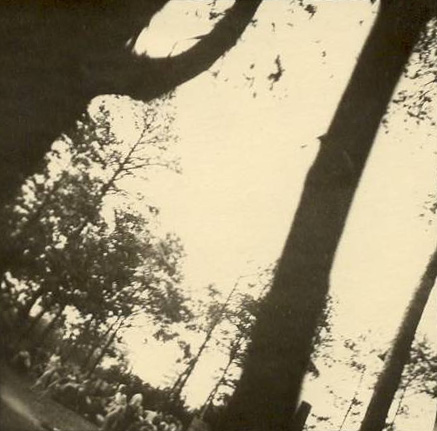 One of four photographs from Auschwitz-Birkenau in German-occupied Poland, part of a series known as the Sonderkommando photographs. The photograph shows women being taken to the gas chamber.